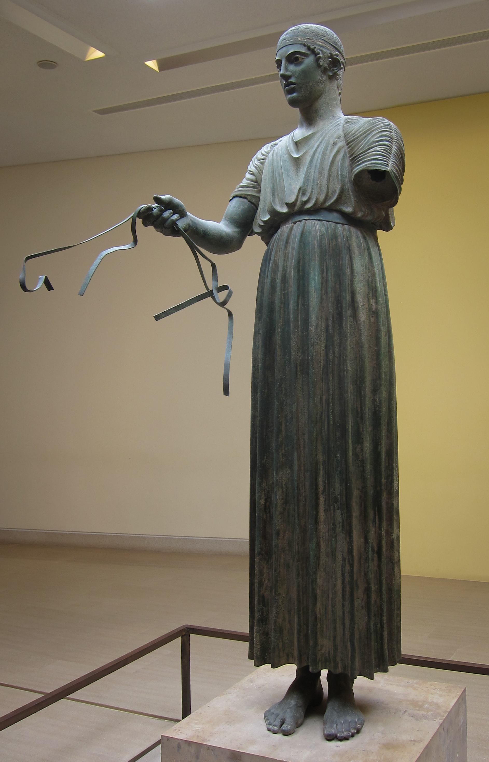 Charioteer, Delphi, Greece